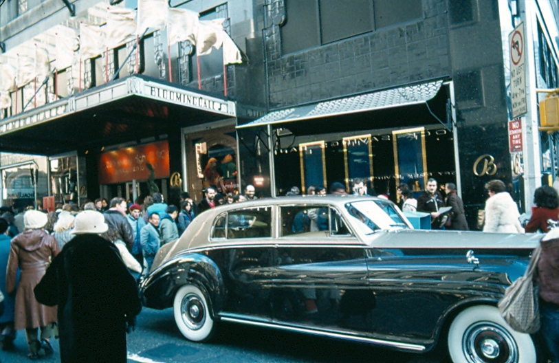 Bloomingdale's department store at Lexington Ave., in New York City, NY